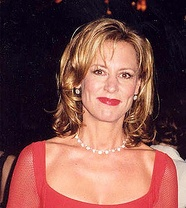 Christine Lahti at the Governor's Ball held after the 49th Annual Emmy Awards, 9/14/97